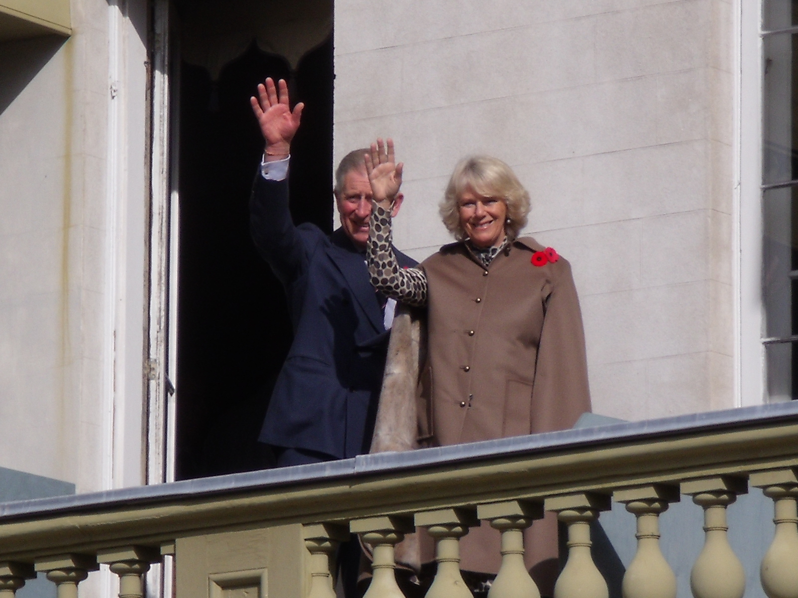 Full size File:Royal Visit Dundurn Castle Balcony.JPG. Other crops here and here